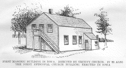 The original Trinity Episcopal Church in Muscatine, Iowa, which was built in 1841.